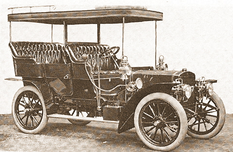 1906 National